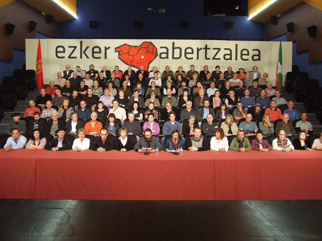 Basque nationalism left presenting the Altsasu Declaration.